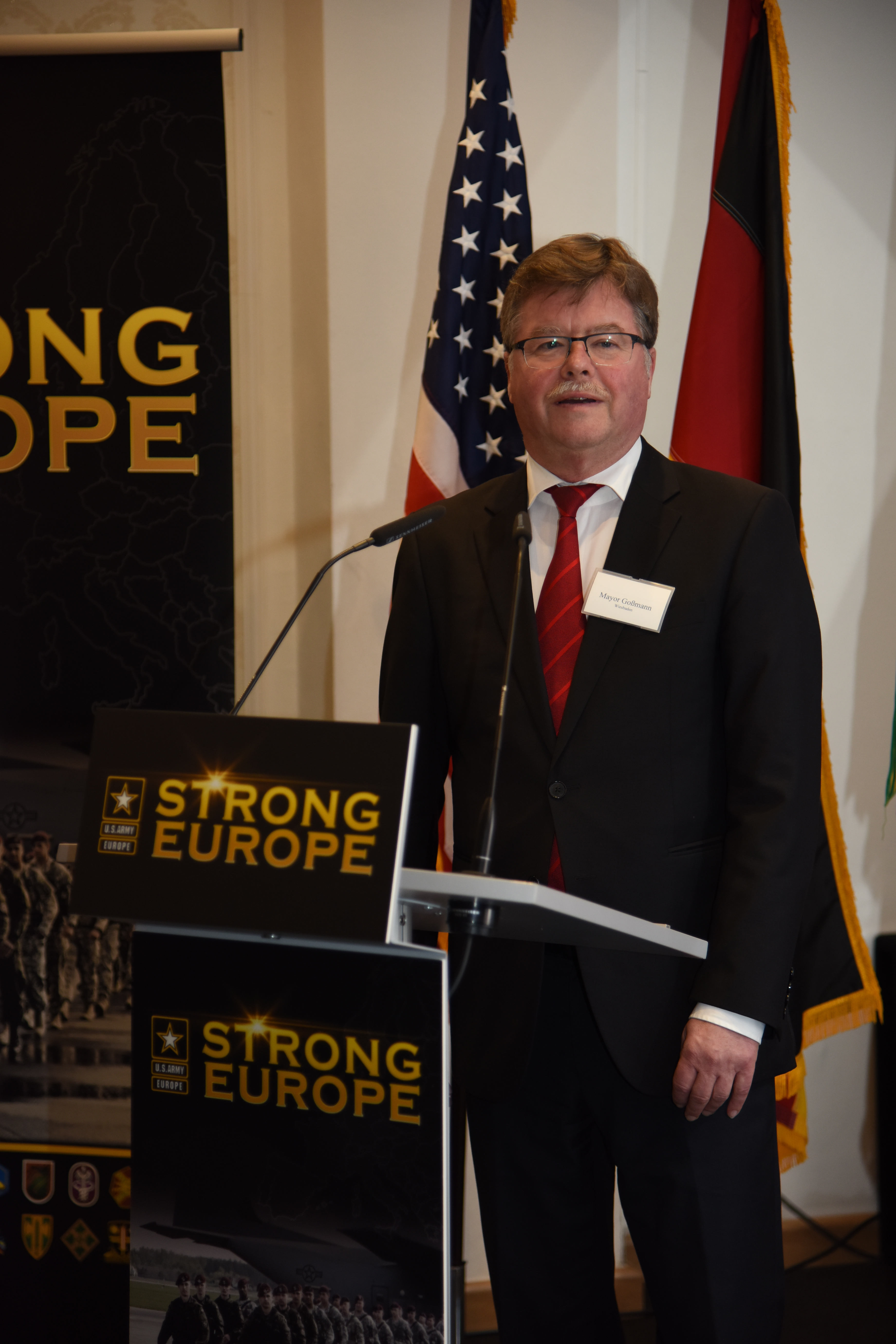 Lord Mayor Arno Gossmann, Mayor of Wiesbaden, Germany, speaks to the guests during the 2016 U.S. Army Europe New Years Reception hosted by Lt. Gen. Ben Hodges, USAREUR Commanding General, on Jan. 14, 2016, on Clay Kaserne, in Wiesbaden, Germany.